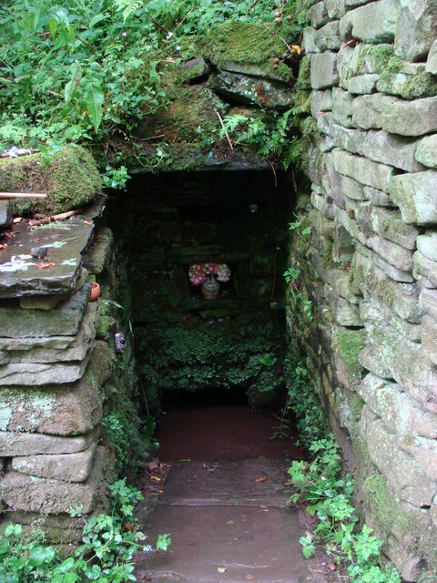 St. Issui's Well Partrishow This holy well marks the site where by tradition Issui, the Christian Celtic saint, was martyred. The Welsh name for this place is, therefore, Merthyr Issui.